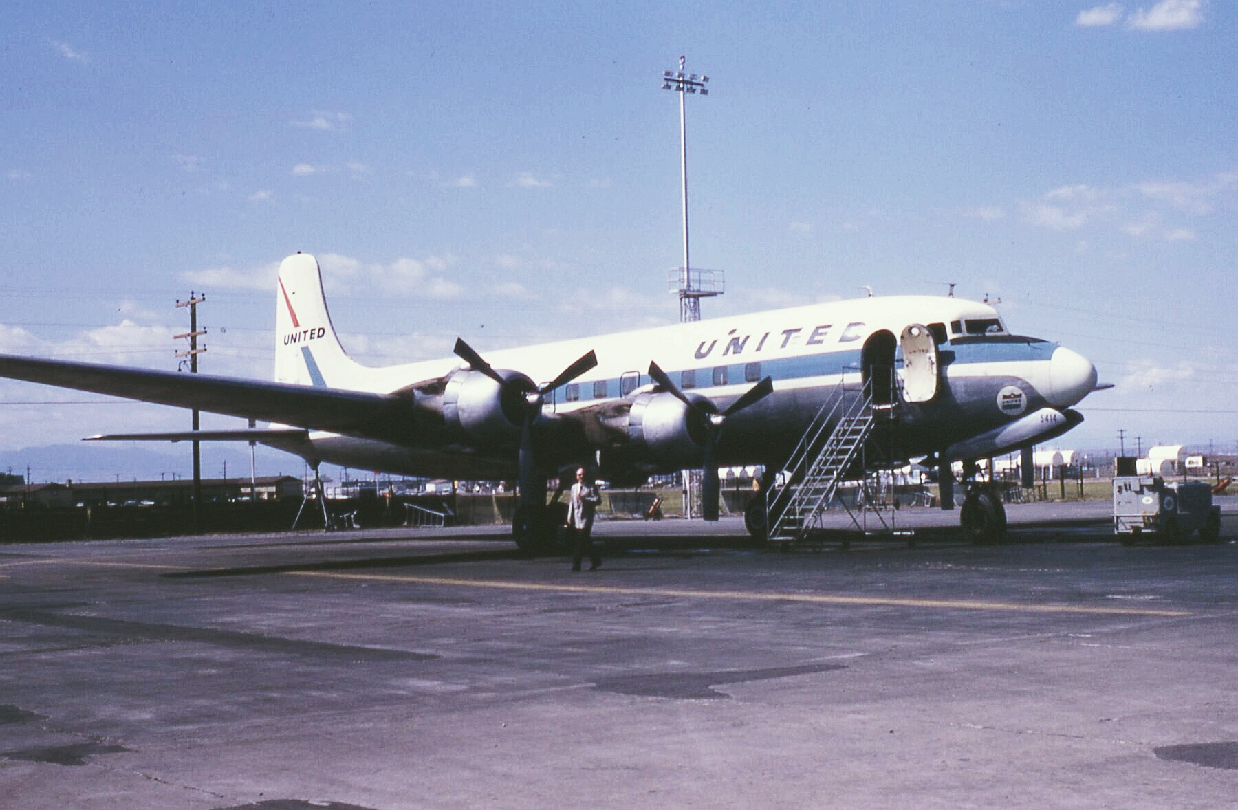 United Airlines DC-6, N37514, fleet code 5414, parked on the northwest ramp of the old Stapleton Airport, in Denver, CO, in September, 1966. Taken with 35mm Ektachrome film.